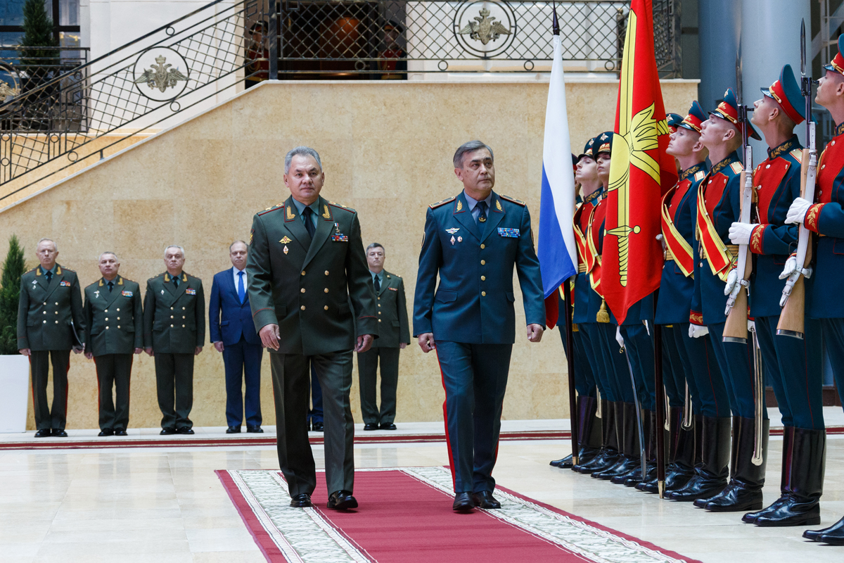 Министры обороны России и Казахстана обсудили на встрече в Москве развитие сотрудничества военных ведомств двух стран